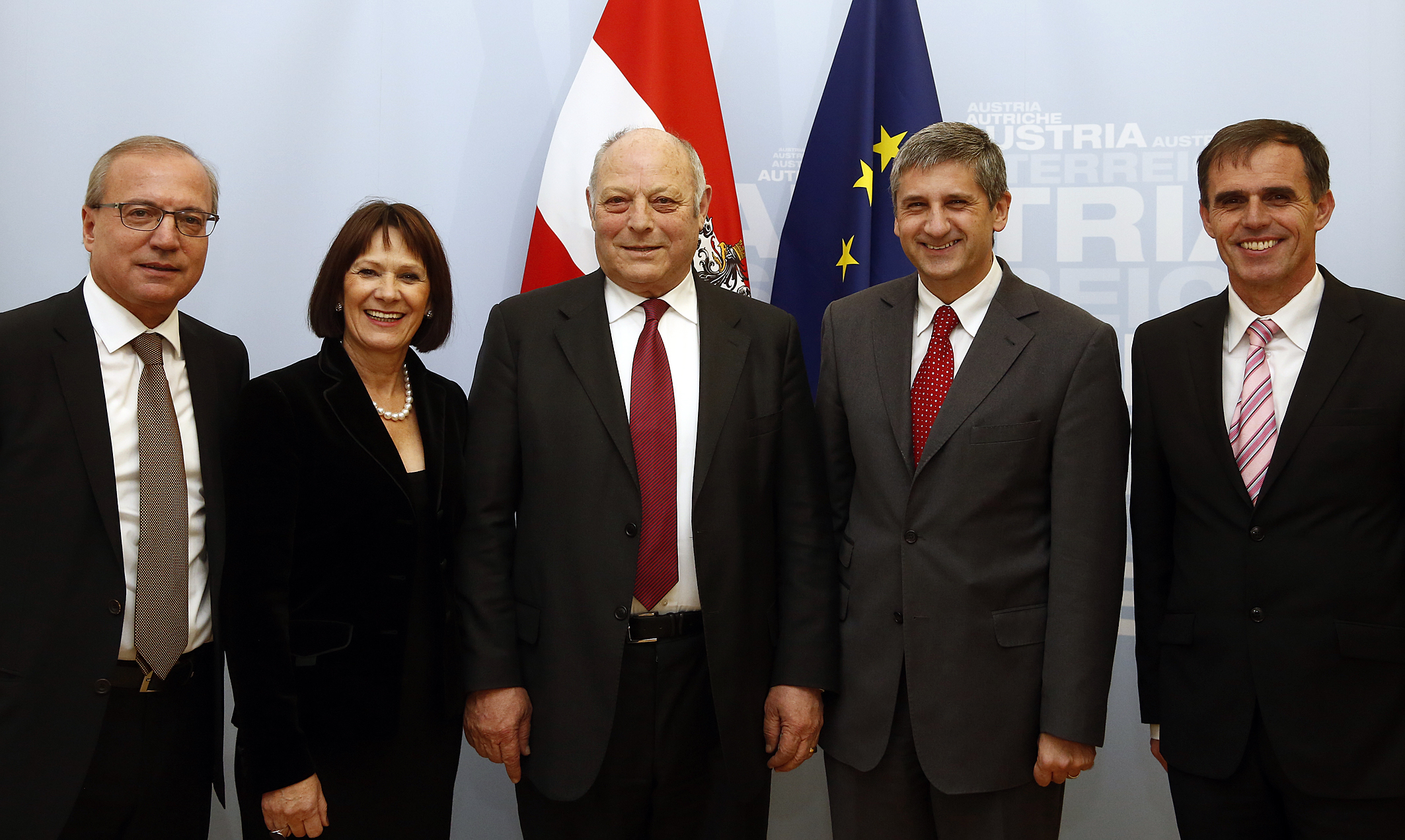 Siegfried Brugger, Helga Thaler Ausserhofer, Luis Durnwalder, Michael Spindelegger and Richard Theiner.